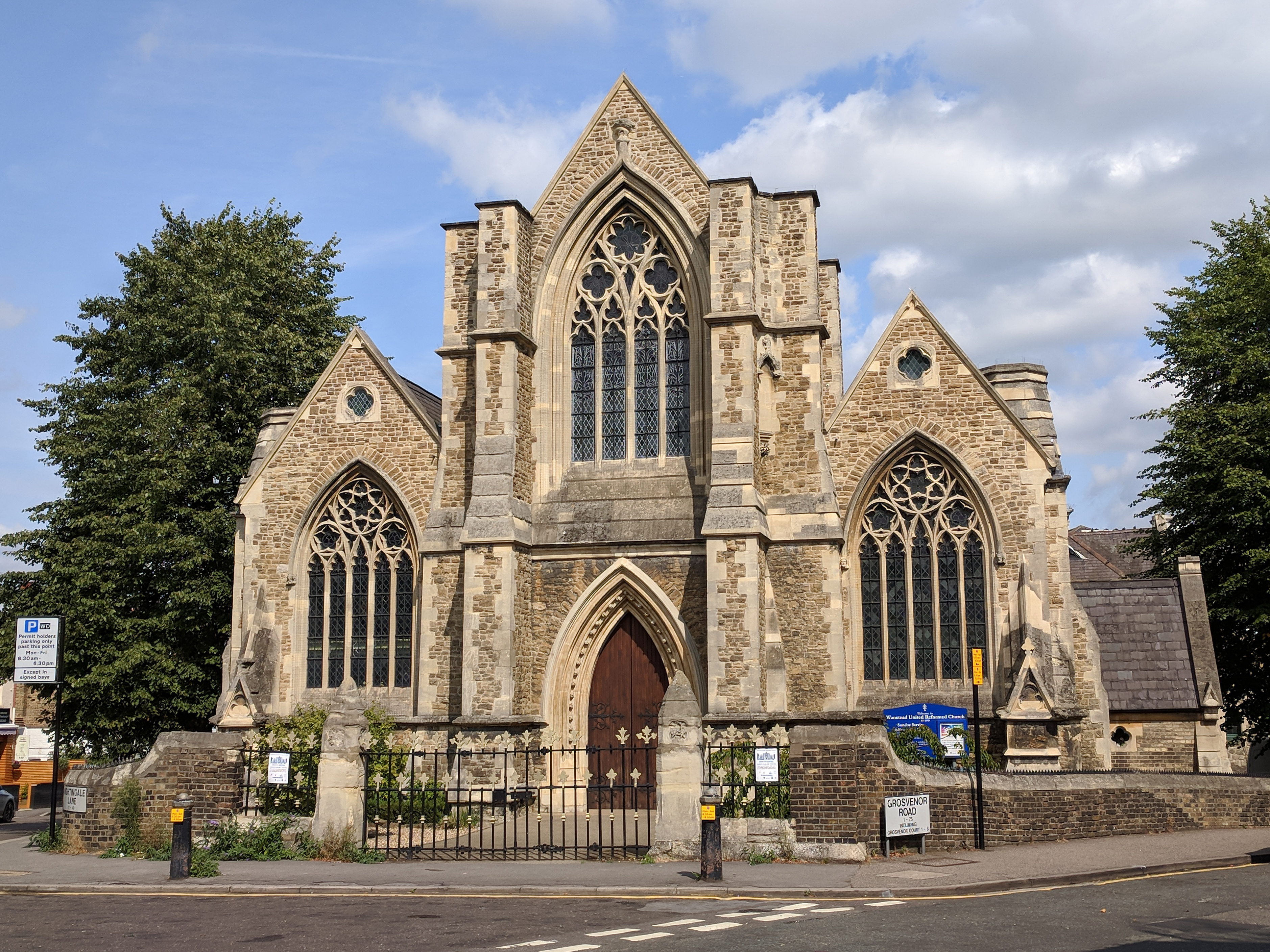 United Reformed Church in Wanstead, London. This building has an interesting history, it was originally a CofE church several miles away in St Pancras! When it was to be demolished to make way for the railway station, a congregationalist community purchased the materials and re-built it in Wanstead.